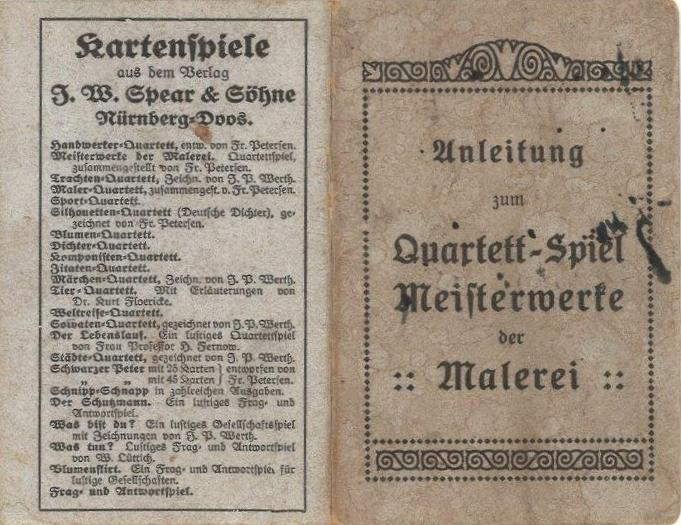 Instructions for a quartet game of J.W. Sears & Sons, Nürnber (about 1910)